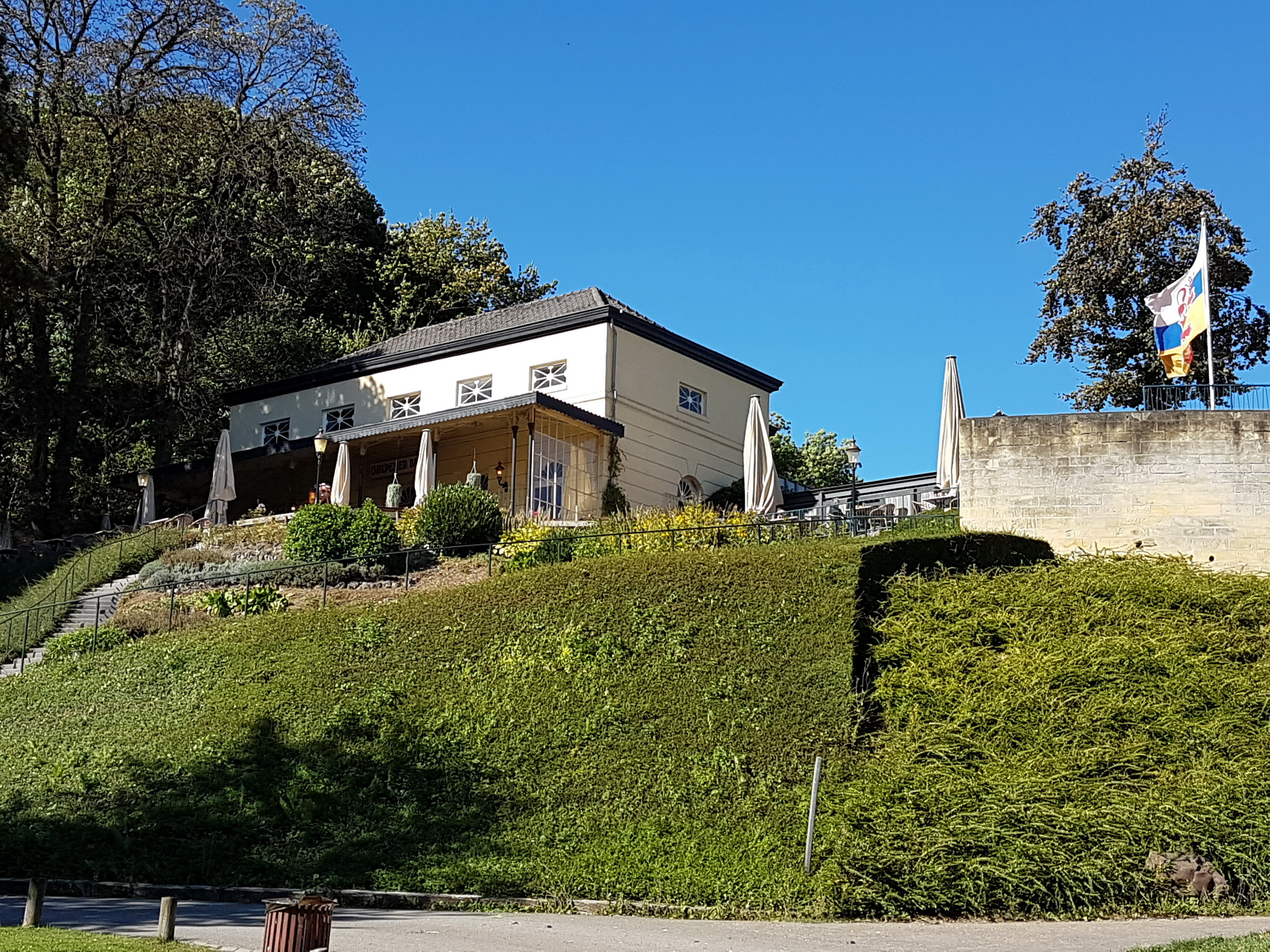 View of Buitengoed Slavante, a 19th-century gentlemen's club, now a café and restaurant on the east slope of Mount Saint Peter in Maastricht, Netherlands.